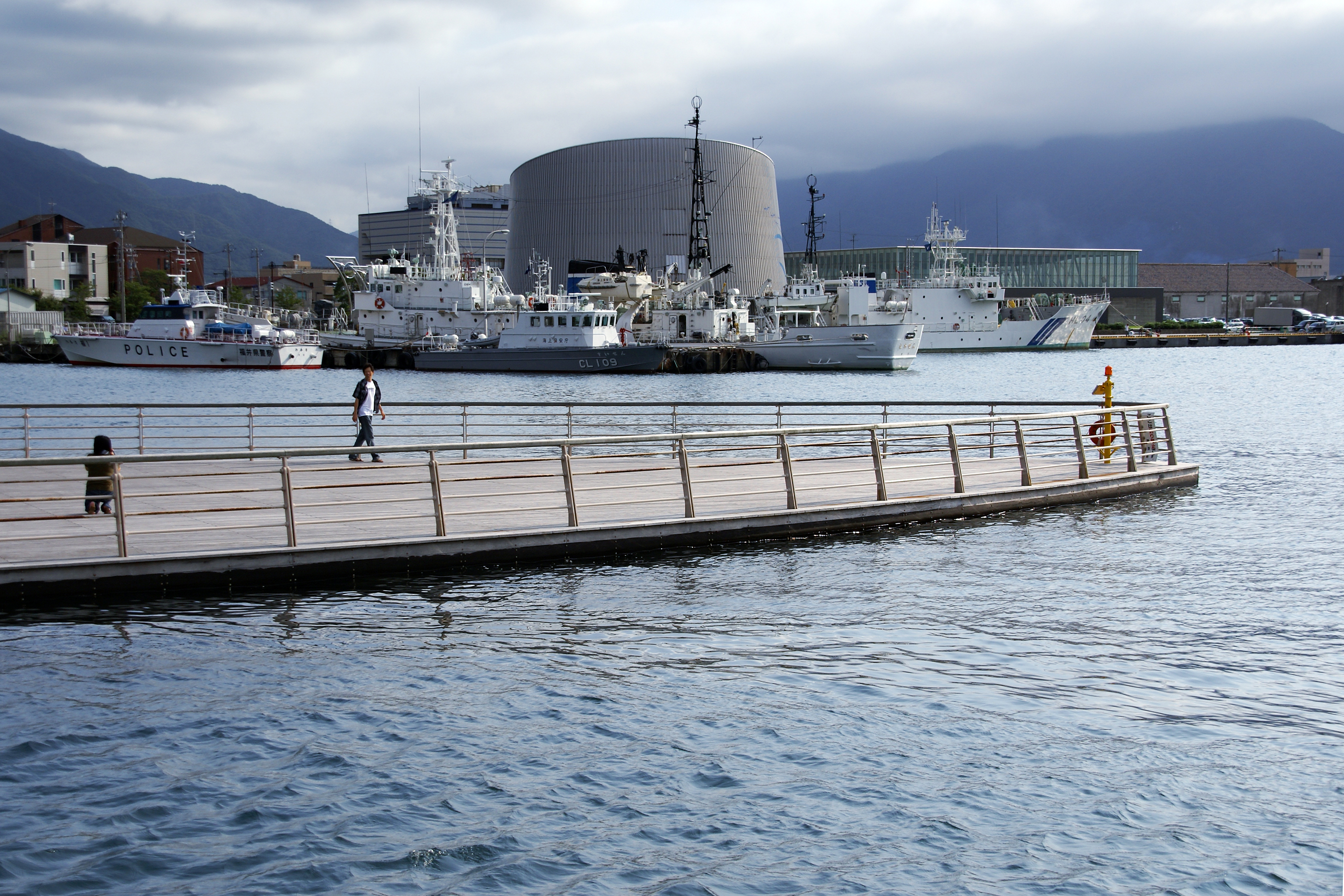 Kanegasaki ryokuchi in Tsuruga, Fukui prefecture, Japan